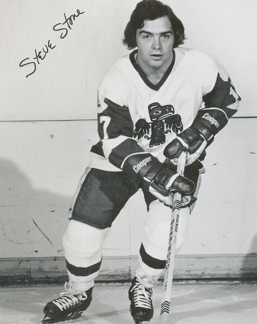 Steve Stone on the Seattle Totems in 1974